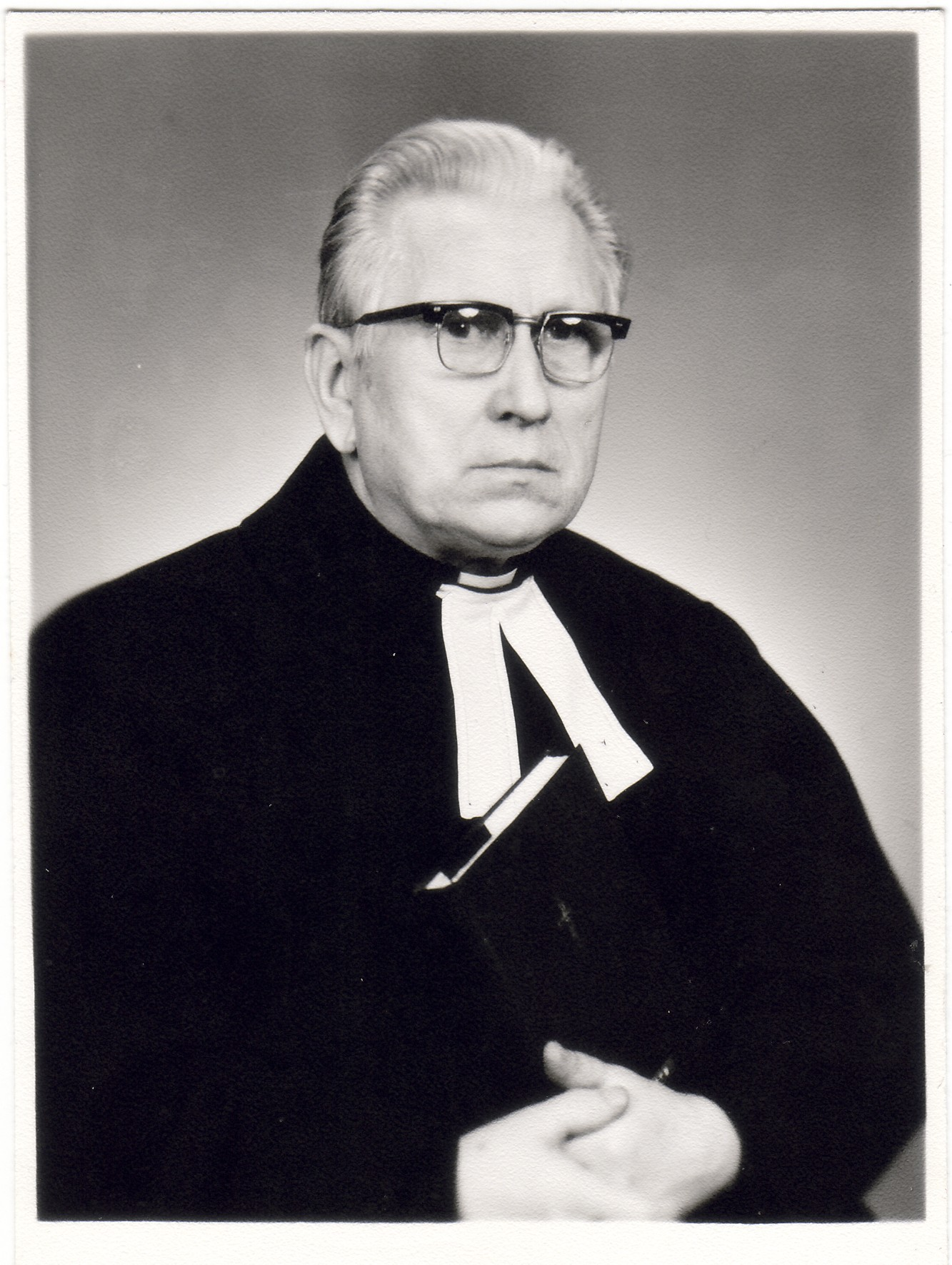 Aleksander Luhamets